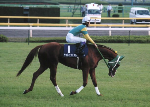 Silence Suzuka(It takes a picture in Tokyo Racecourse on November 1, 1998.)